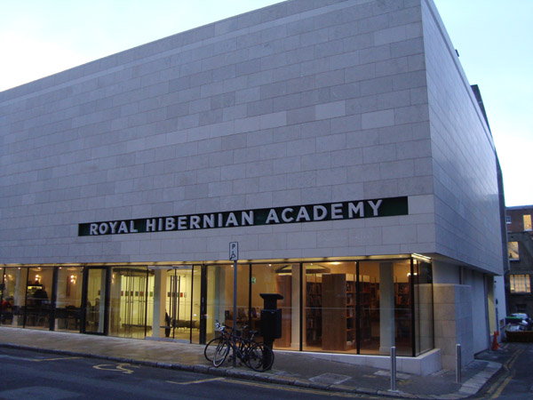 Photograph of the Royal Hibernian Academy building in Ely Place, Dublin, Ireland. Taken by me 20 January 2009.